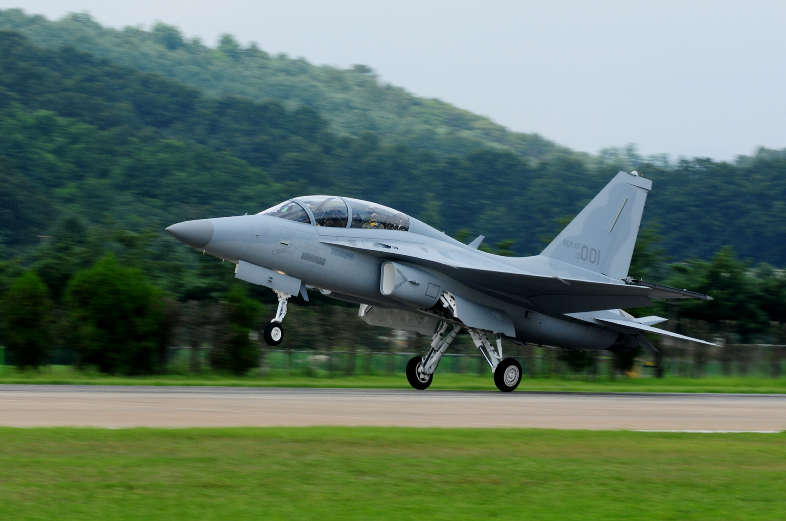 FA-50 Fighting Eagle First Delivery Light Combat FA-50 Fighting Eagle / Landing for First delivery / Photo by ROKAF (2013) 한국항공우주산업